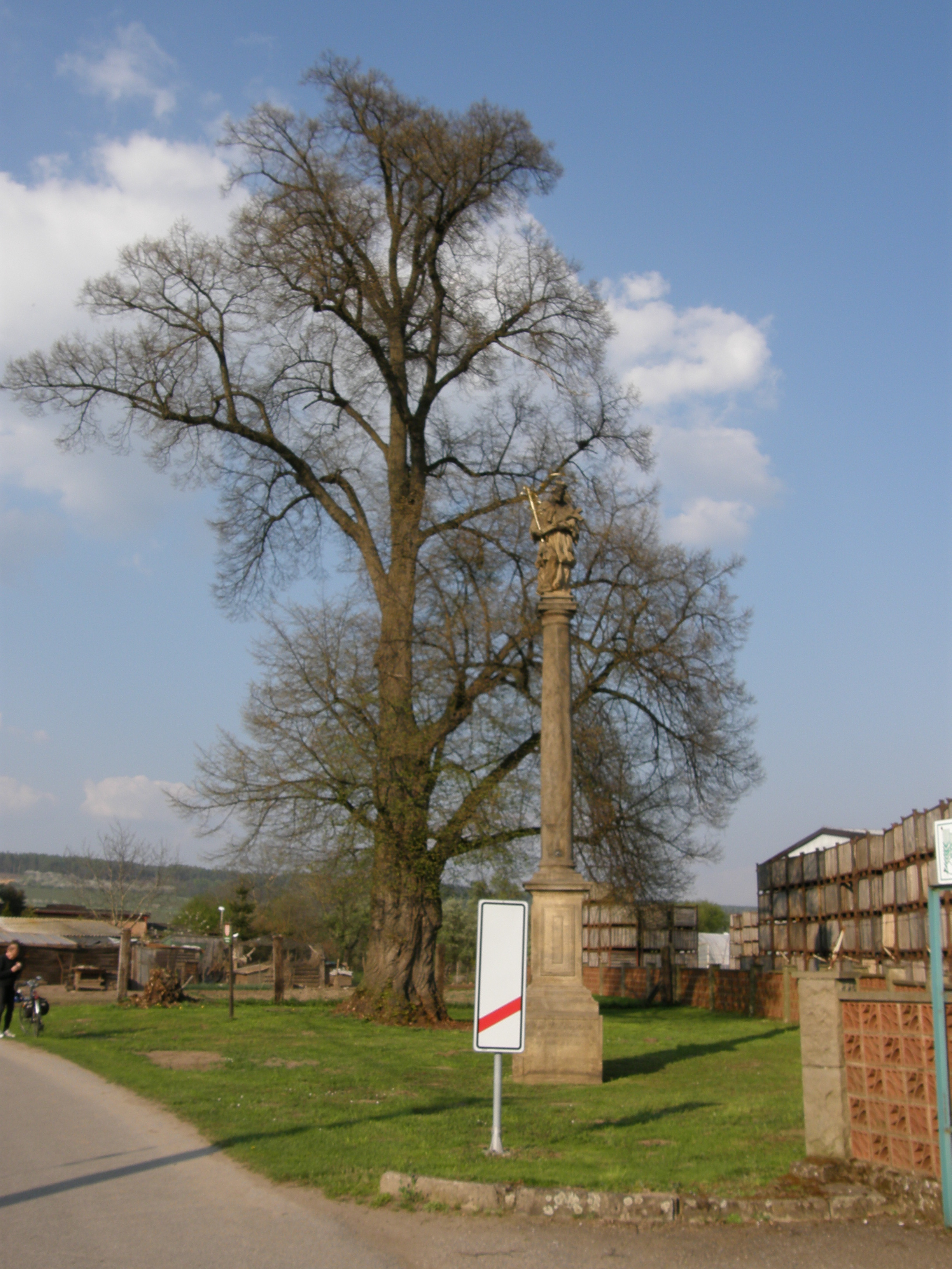 Column with statue of Saint John of Nepomuk and remaining of protected lime trees (Žižkovy lípy - Žižka's Limes), Sobčice, Jičín District, Hradec Králové Region, Czech Republic